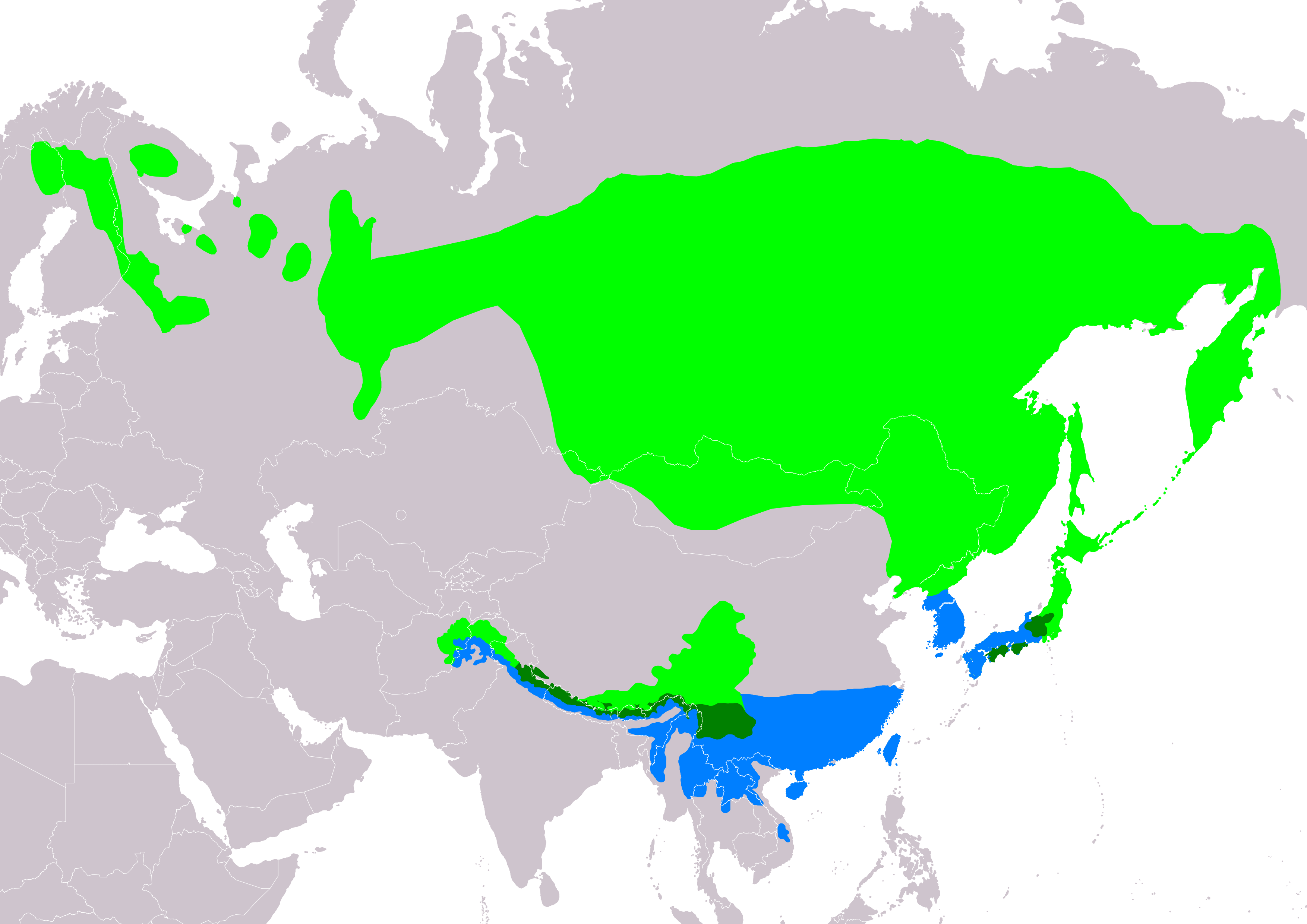 The distribution map of orange-flanked bush-robin (Tarsiger cyanurus) according to IUCN version 2019.1 ; key: Legend: Extant, breeding (#00FF00), Extant, resident (#008000), Extant, non-breeding (#007FFF)